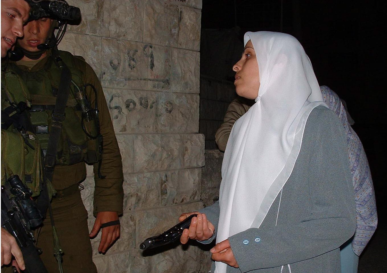 04/14/2005 While IDF forces arrested a wanted Hamas militant in Nablus, they combed his home. During the search a gun holster and bullets were found. The militant surrendered his personal weapon to the soldiers, which was hidden in his sister's undergarments. The Israel Defense Forces Facebook page The Israel Defense Forces blog Follow us on Twitter